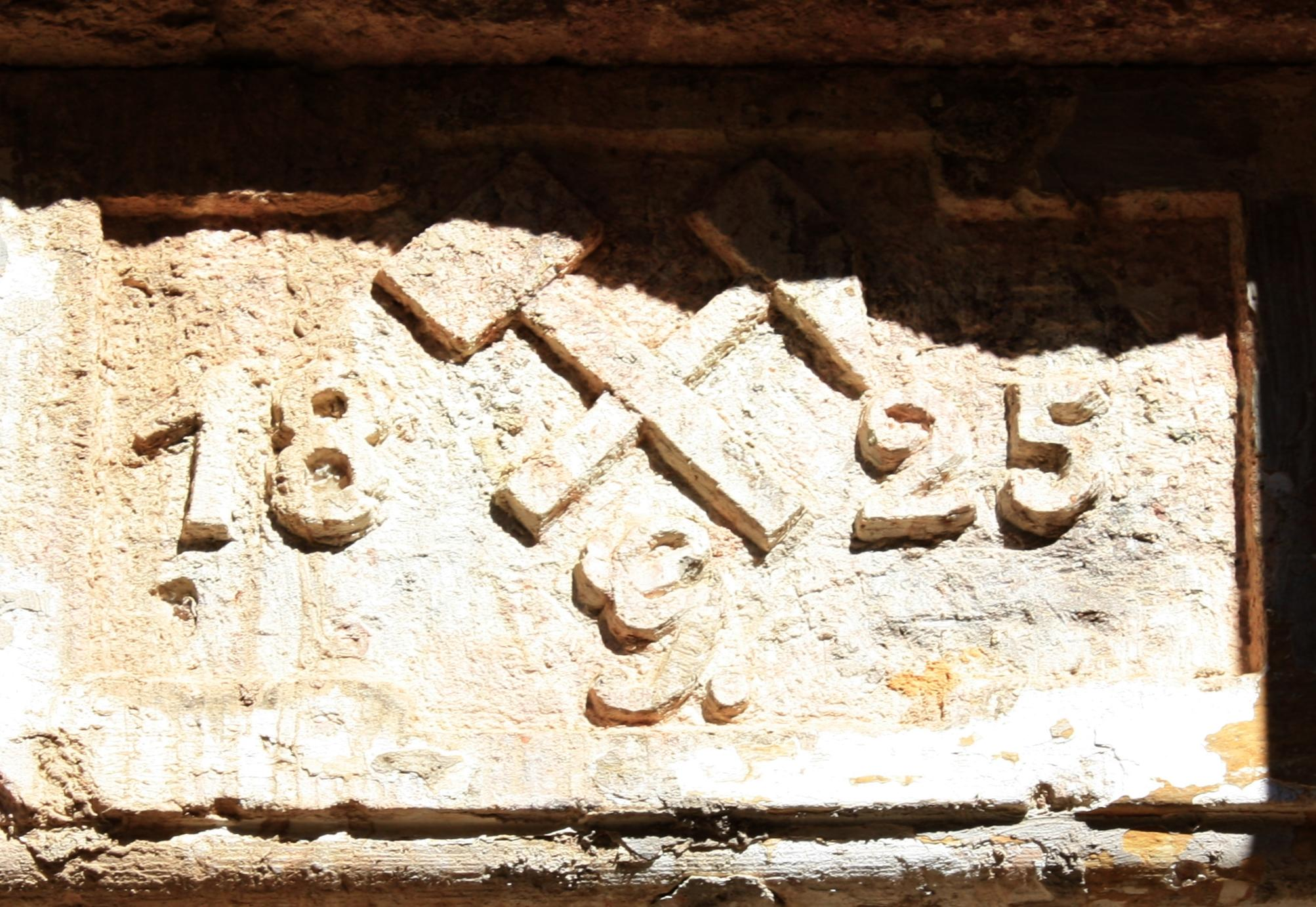 Doorframe of Gottes Geschick mining building at Graul near Schwarzenberg/Erzgeb.; detail